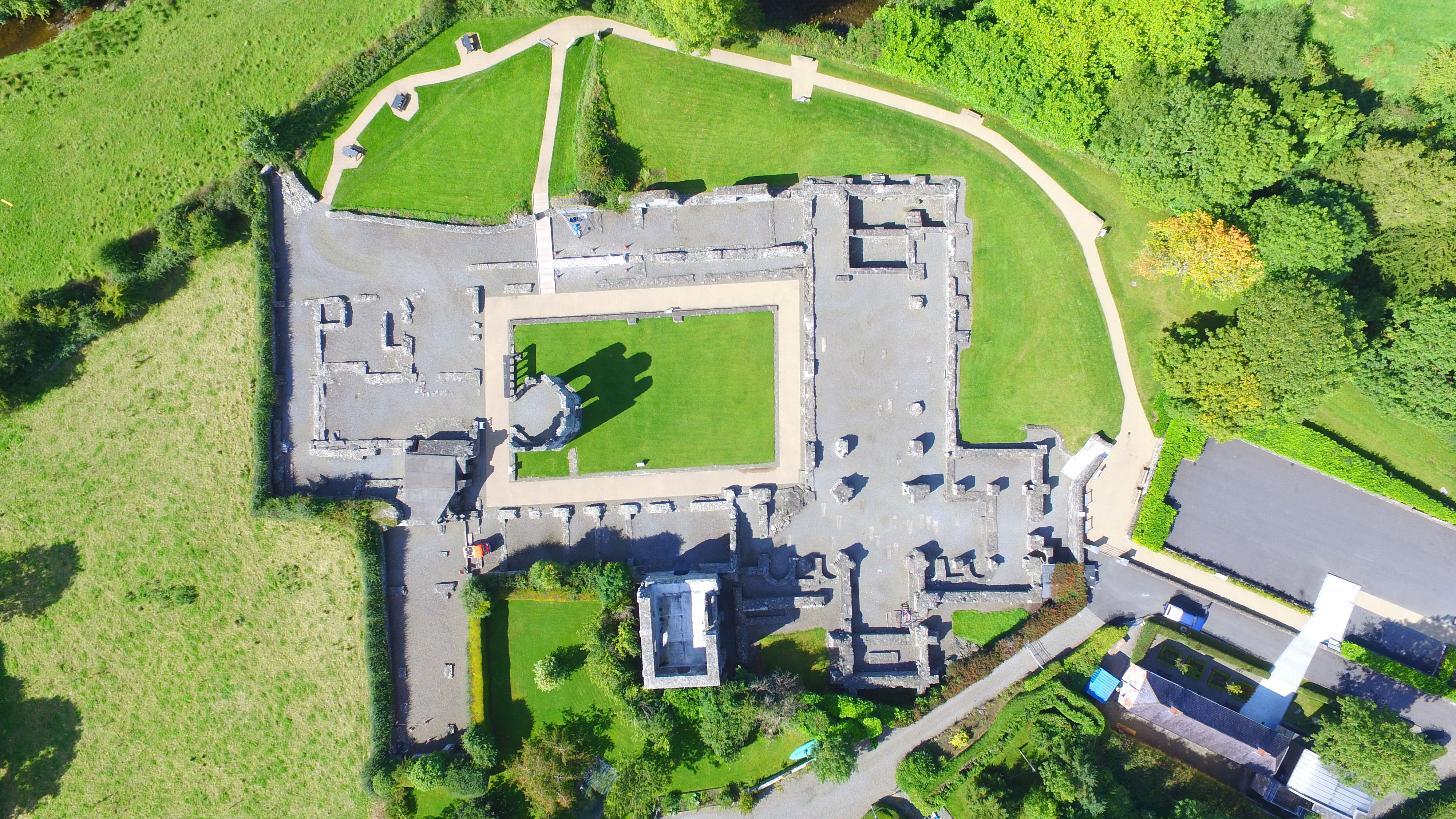 Mellifont Abbey